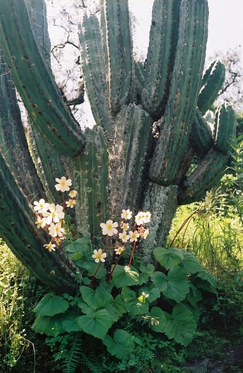 Trichocereus & Begonia octopetala. Pitunilla (Parinacochas, Ayacucho, Peru)